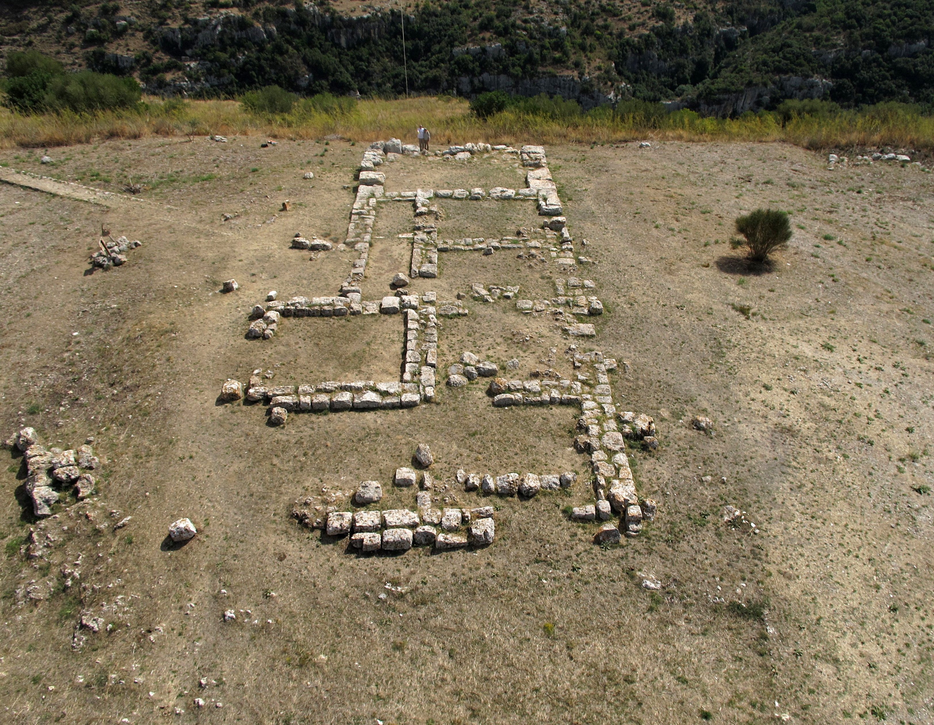 Pantalica (Sicily): Aerial view of the Anaktoron (king's palace). View to Southeast. Picture taken by kite aerial photography (KAP). Note the kite pilots and the kite line in the background.